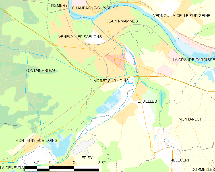 Map of French municipality Moret-sur-Loing